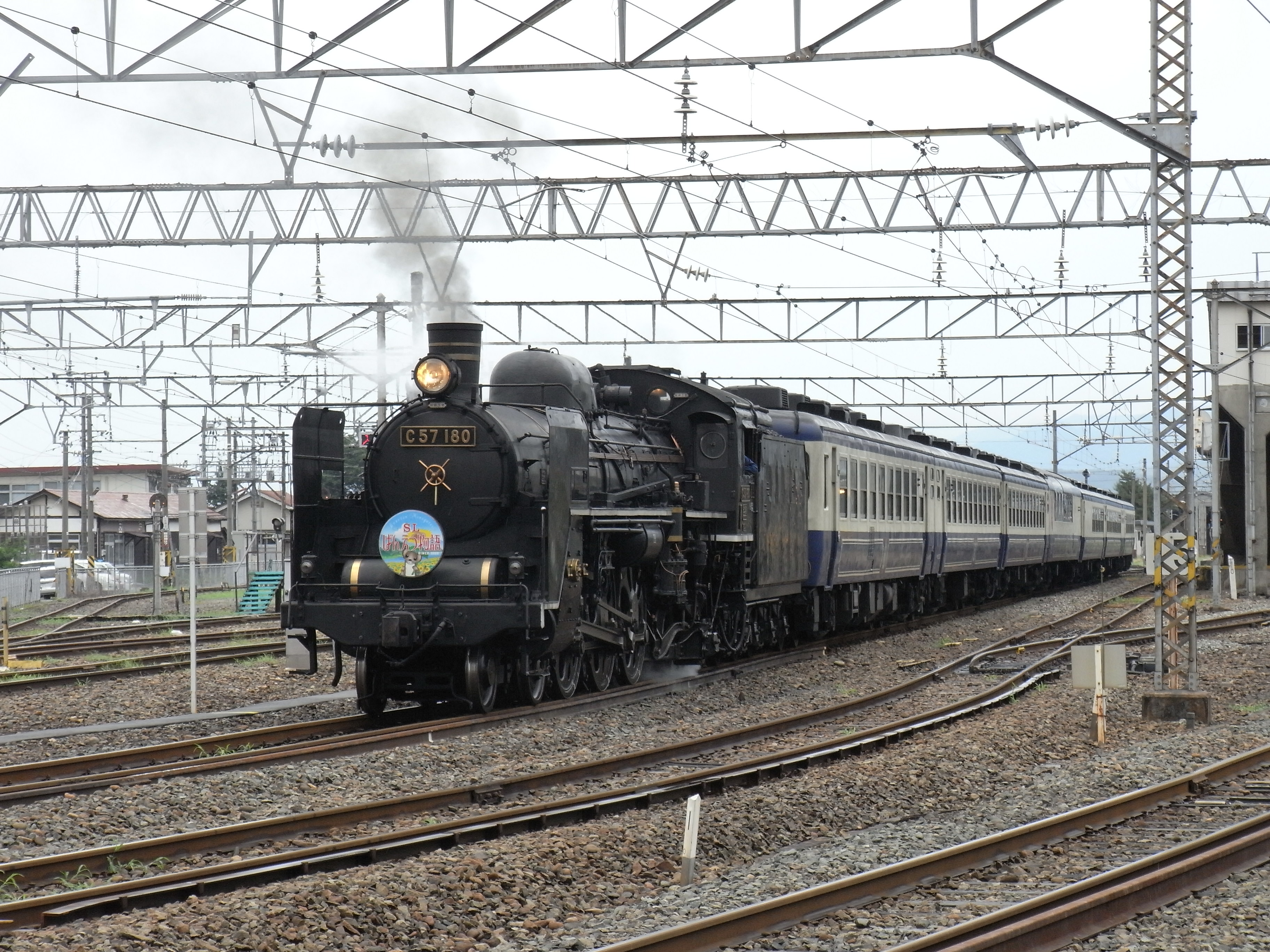 The JR East SL Banetsu Monogatari hauled by C57 180, being prepared at Aizu-Wakamatsu Station